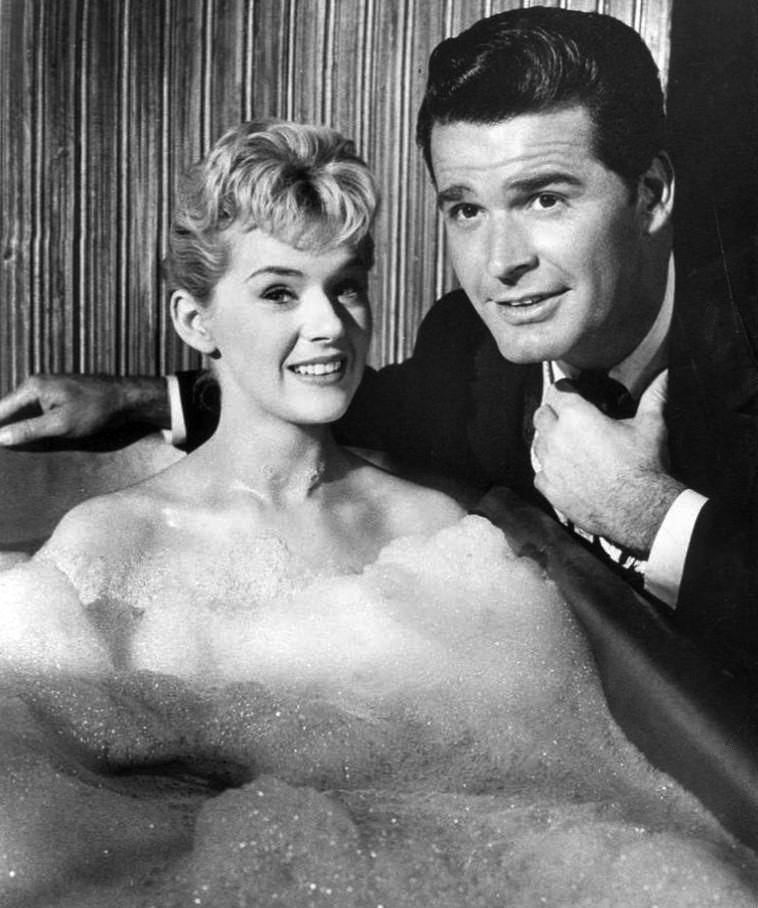 Photo of James Garner as Bret Maverick and Connie Stevens from the television program Maverick. This episode is "Two Tickets to Ten Strike".